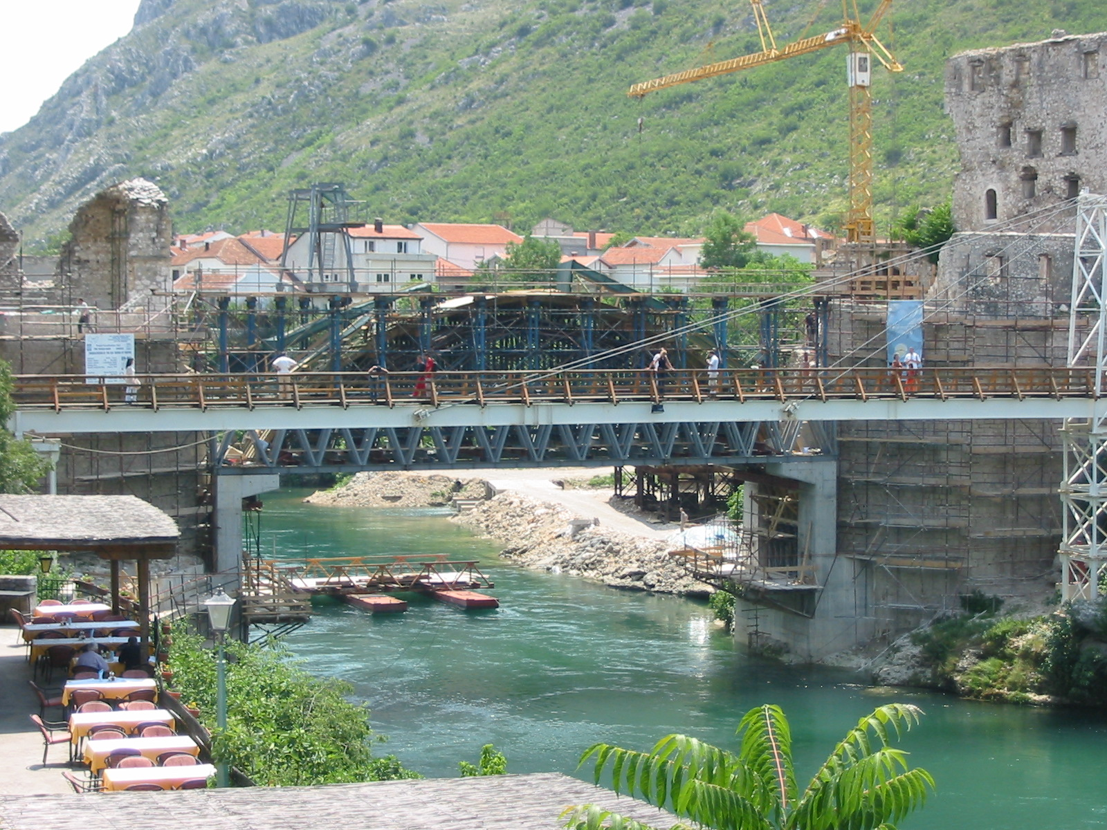 The old Bridge in Mostar, in rebuild, June 2003, picture taken by myself